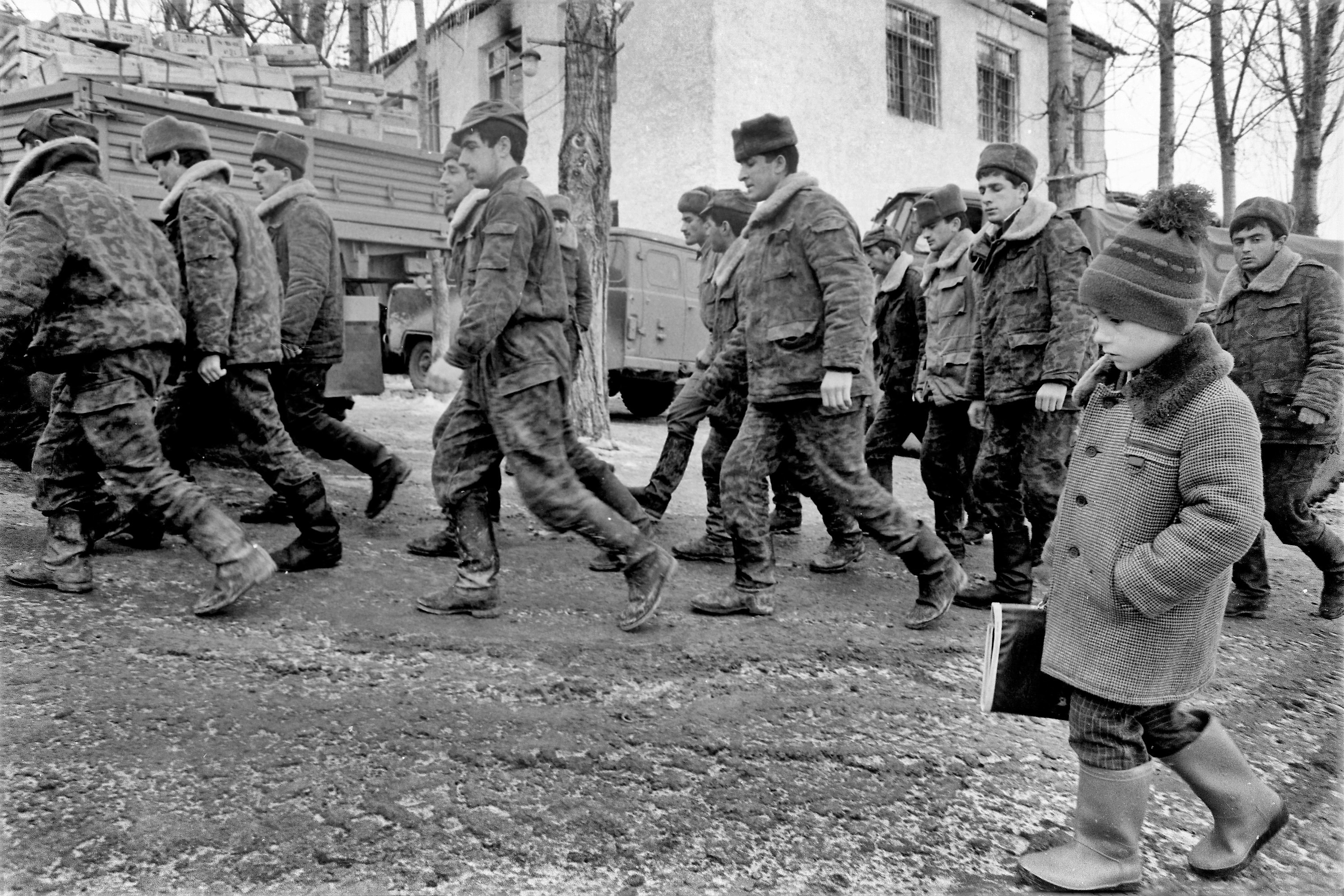 Soldiers of the Army of Azerbaijan during Karabakh War.